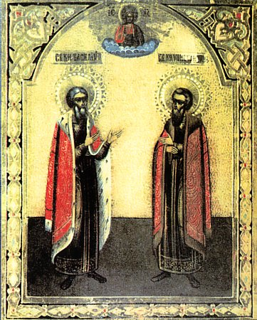 Vasili and Constantin of Jaroslavl